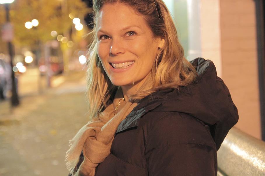 Serena AltschulPlace: New York